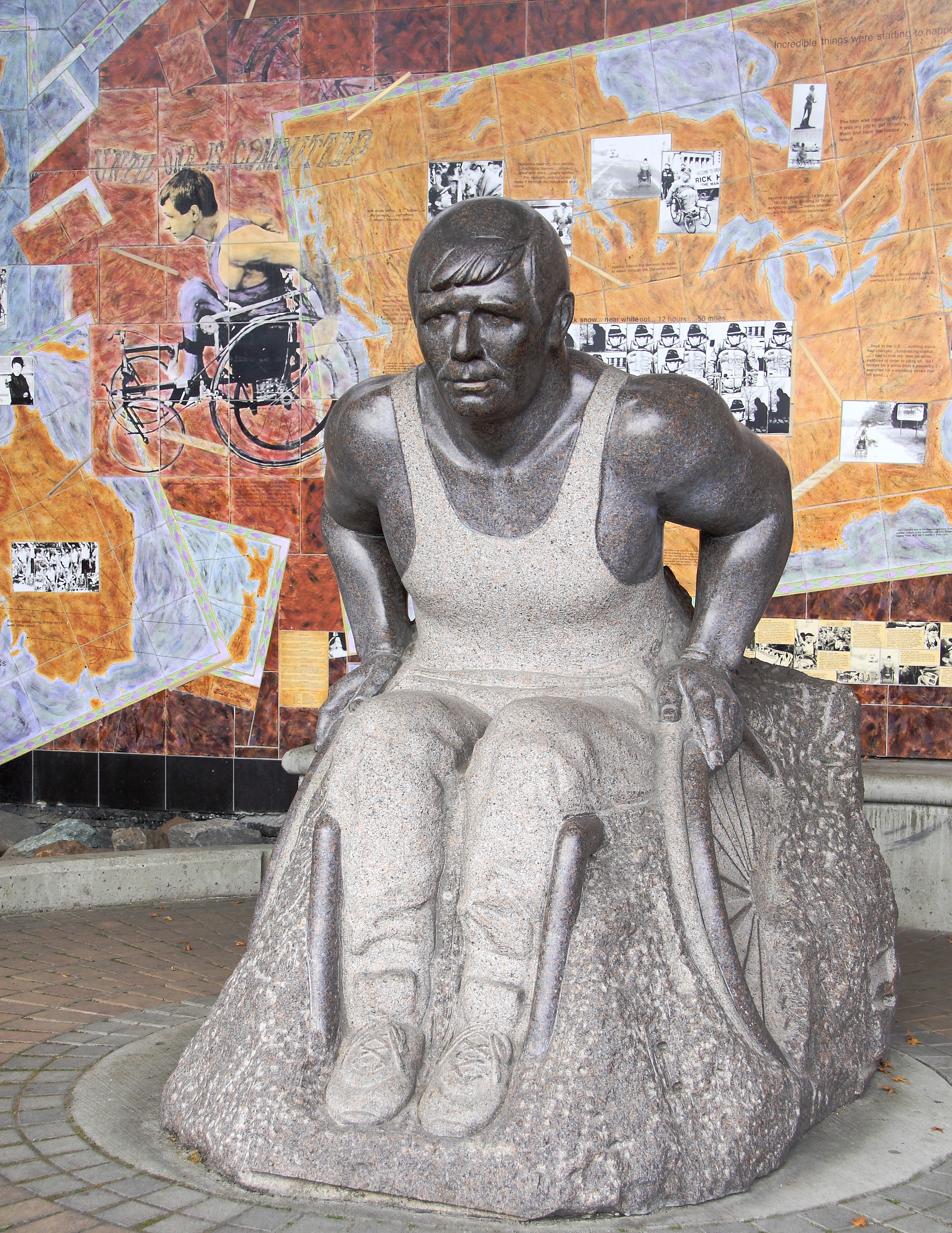 The official Rick Hansen statue at the front of Rogers Arena (formerly GM Place) in Vancouver, Canada. Rick Hansen is a famous Canadian athlete, paralympian and a member of the Order of Canada. Hansen began his "Man in Motion" tour in March 1985 and succesfully completed it in May 1987. He was also the inspiration for the number 1 US hit song 'St. Elmo's Fire' which was written by David Foster and sung by John Parr in Hansen's honour.